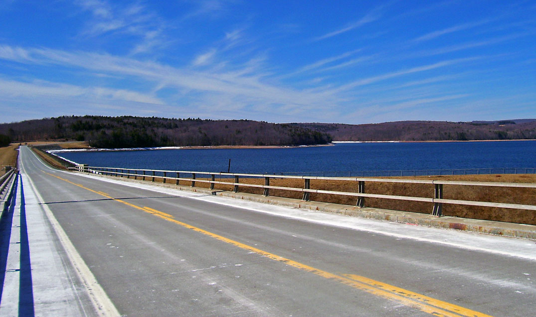 Photographed by Daniel Case 2006-03-21